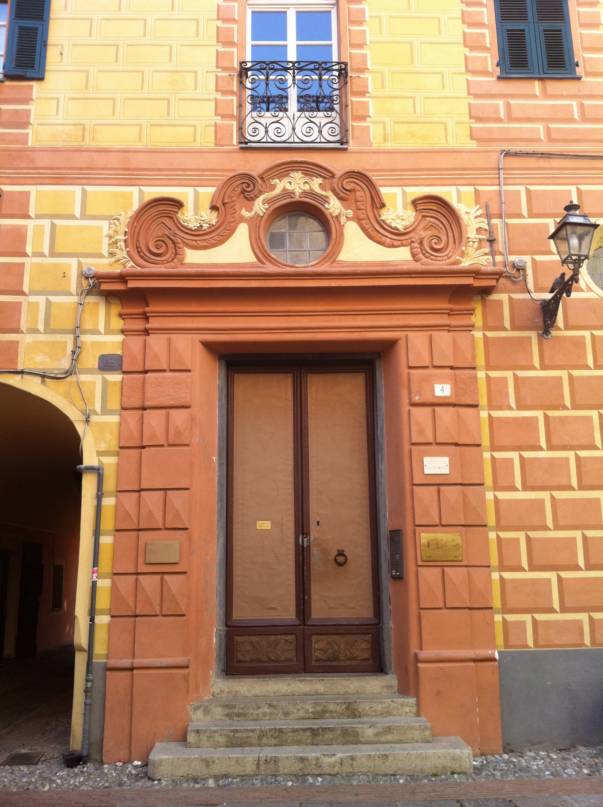 Door of the Seminary